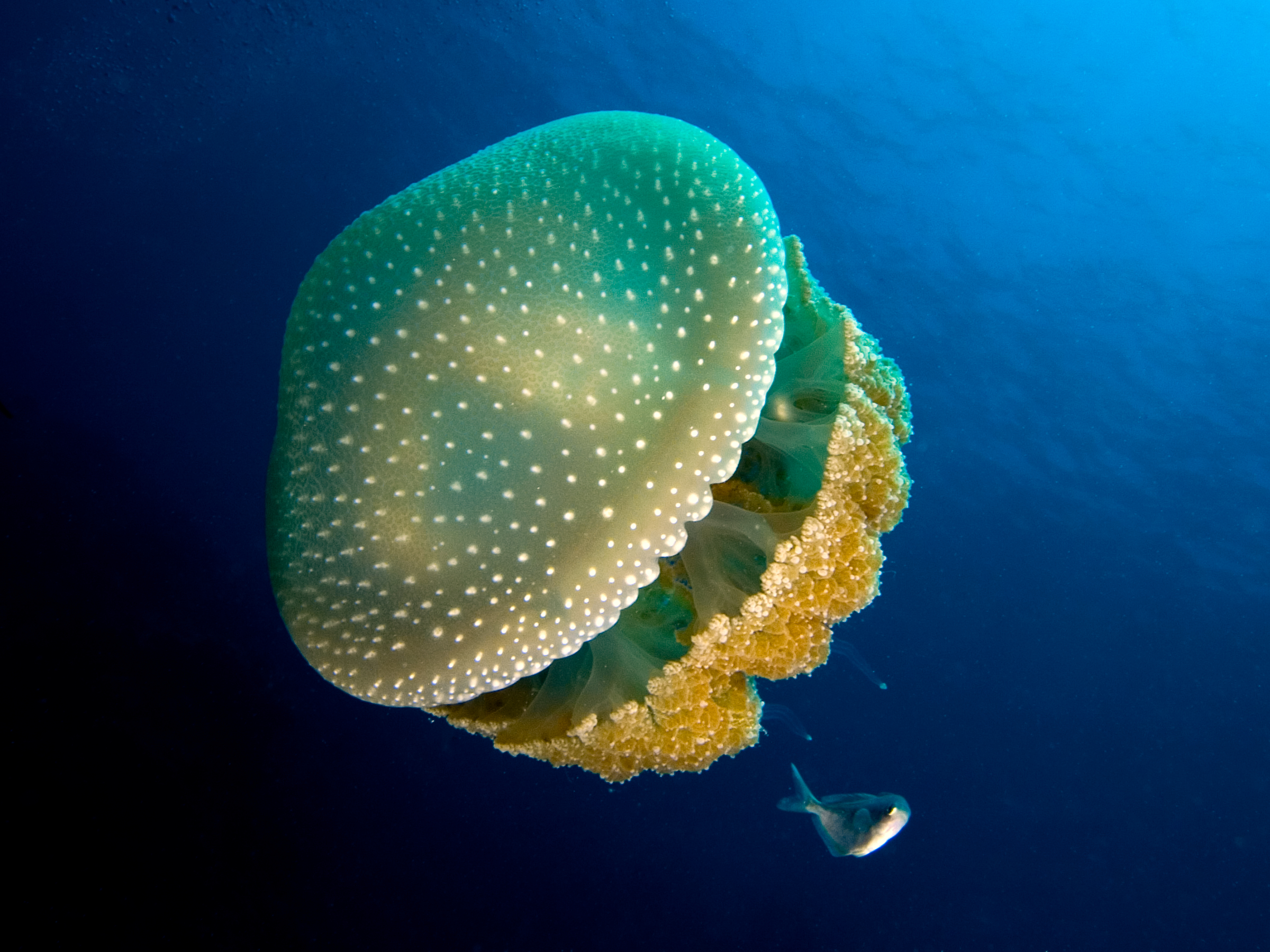 White-spotted jellyfish off the North coast of Haiti.